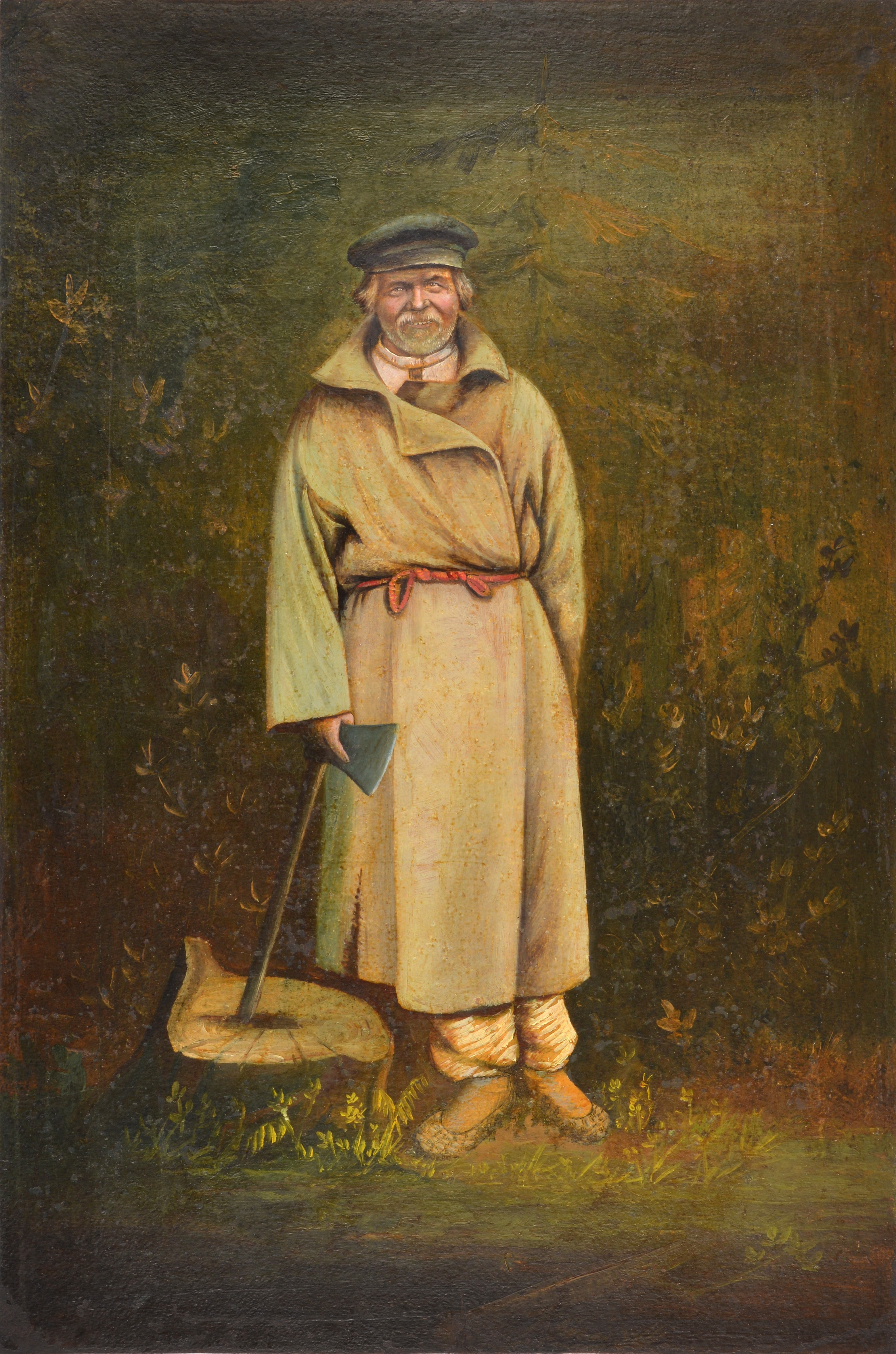 Latvian from Novomisļi village, Bukmuižas parish in Rēzekne region